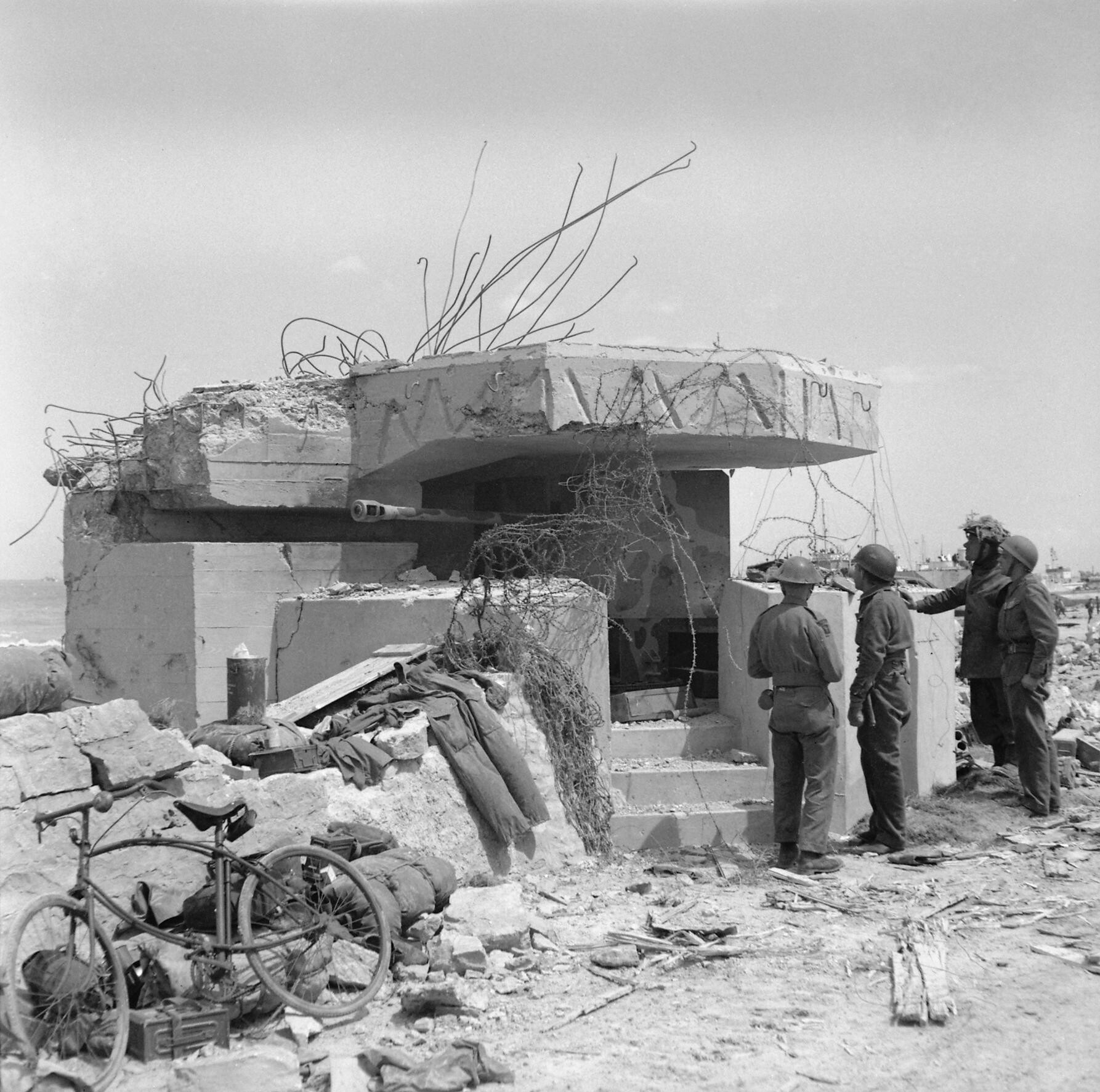 D-day - British Forces during the Invasion of Normandy 6 June 1944 Troops from 50th Division inspect a knocked-out German 50mm gun in its emplacement on Gold area beach, 6 June 1944.